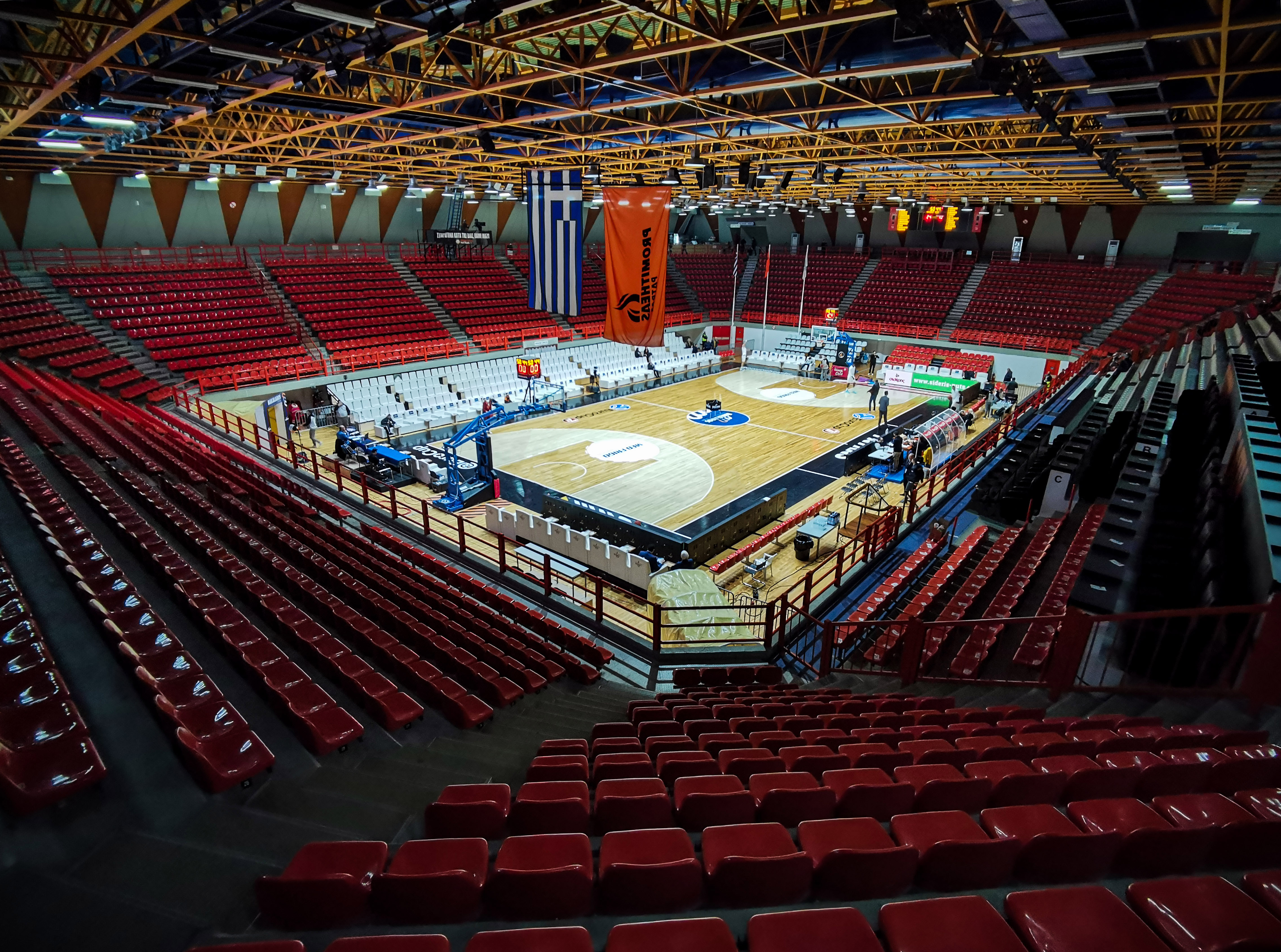 Dimitris Tofalos Arena in Patras, before a Promitheas EuroCup match